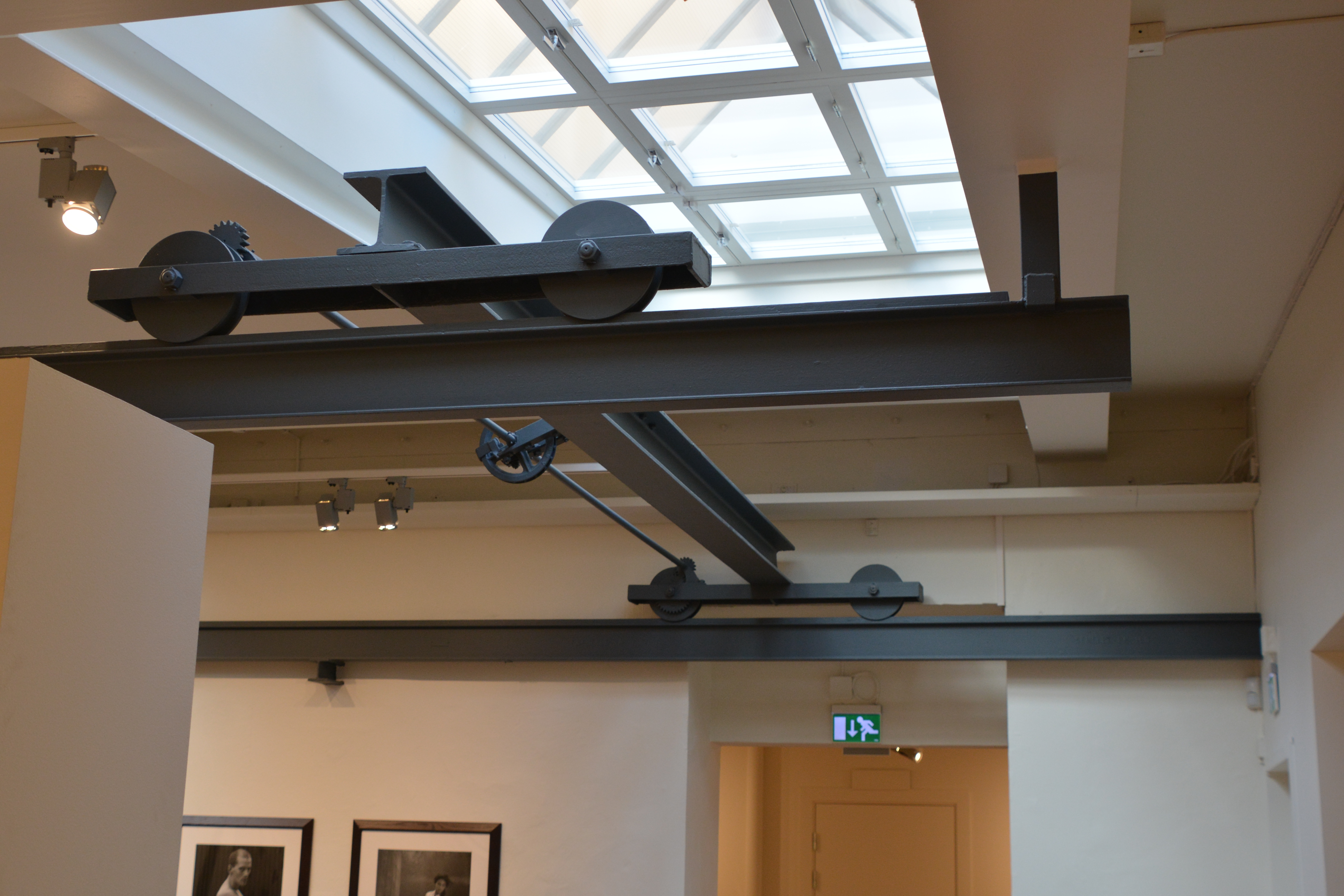 Mindepartementet Art and Photography, Stockholm Overhead crane from 1874.